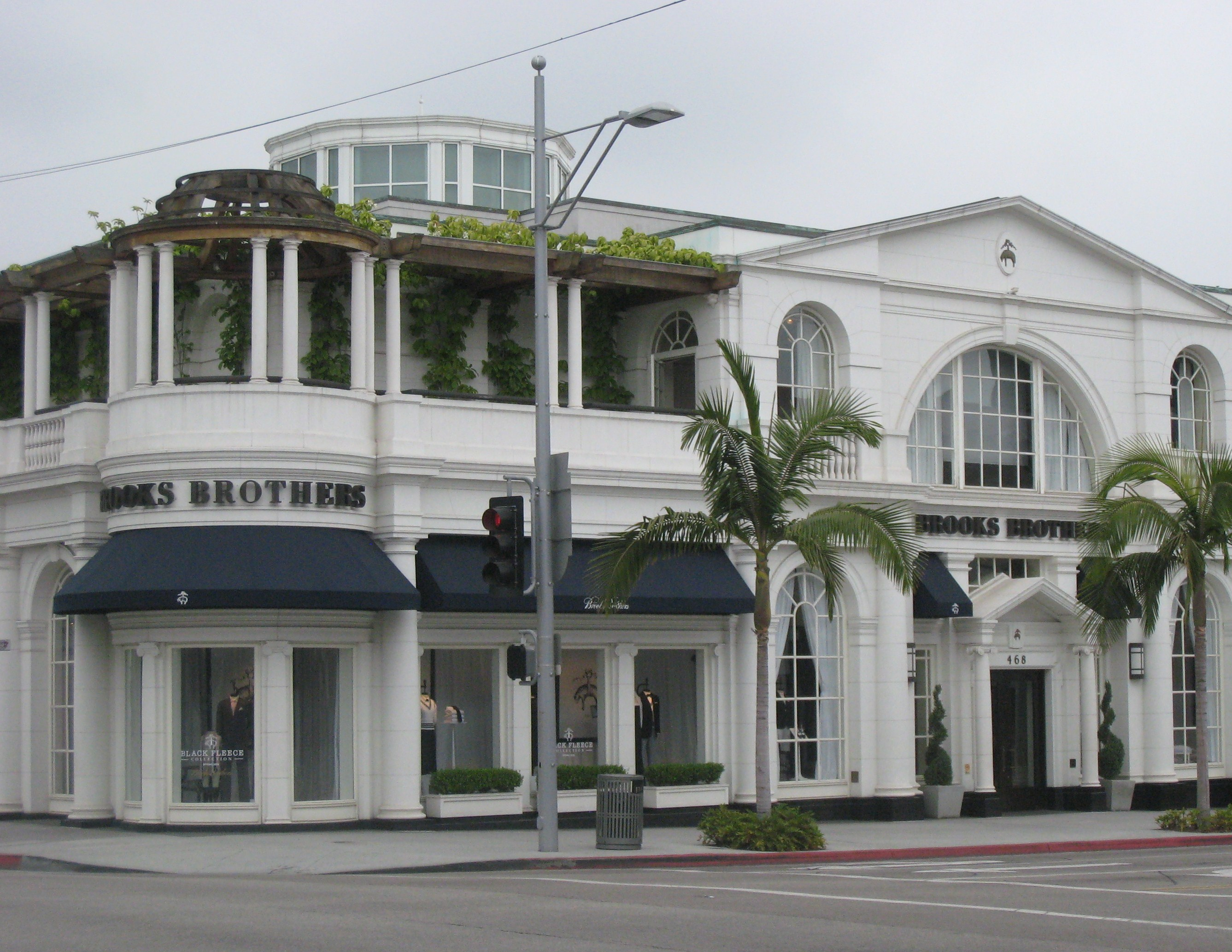 Brooks Brothers clothing retailer on Rodeo Drive in Beverly Hills, California